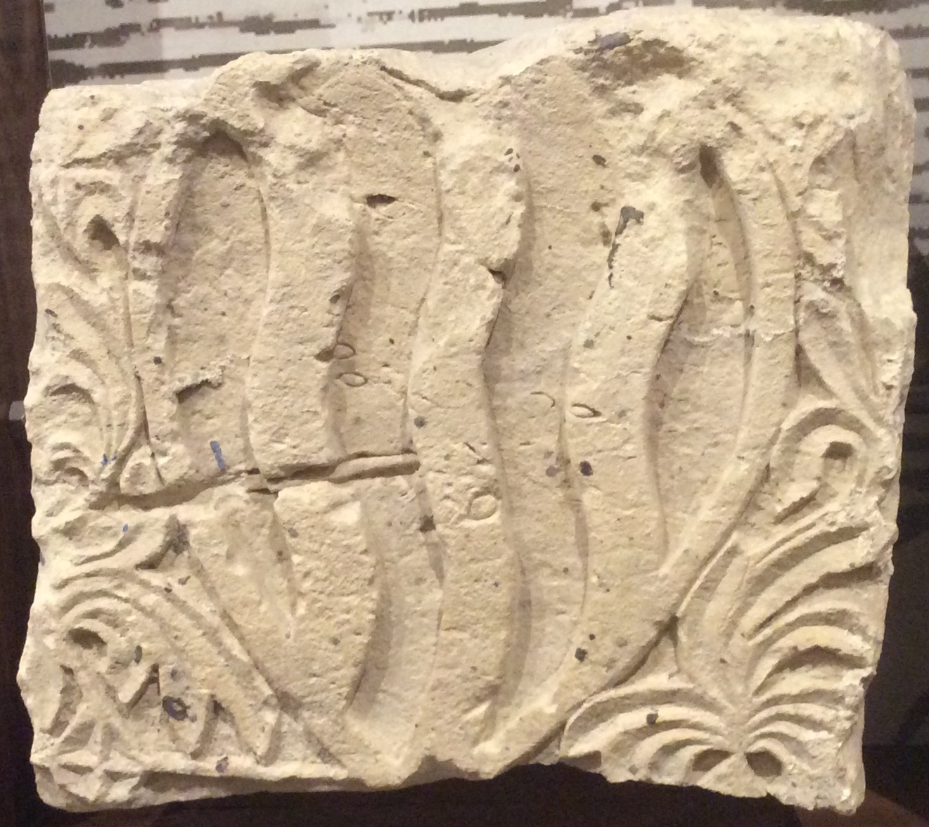 Limestone block bearing the coat of arms of Guglielmo Murina, Governor of Malta in 1372, originating from a medieval building in Mdina, possibly the Castellu di la Chitati. After the building was demolished, the stone was reused during modifications at D'Homedes Bastion in the 1720s. It was rediscovered in 2012 during the restoration of the bastion, and it is now exhibited at the Fortifications Interpretation Centre in Valletta.